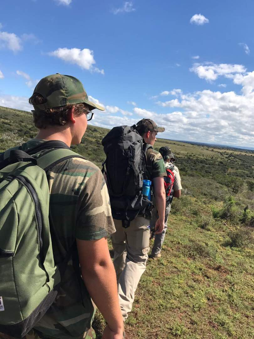 Amkhala Game Reserve fence check